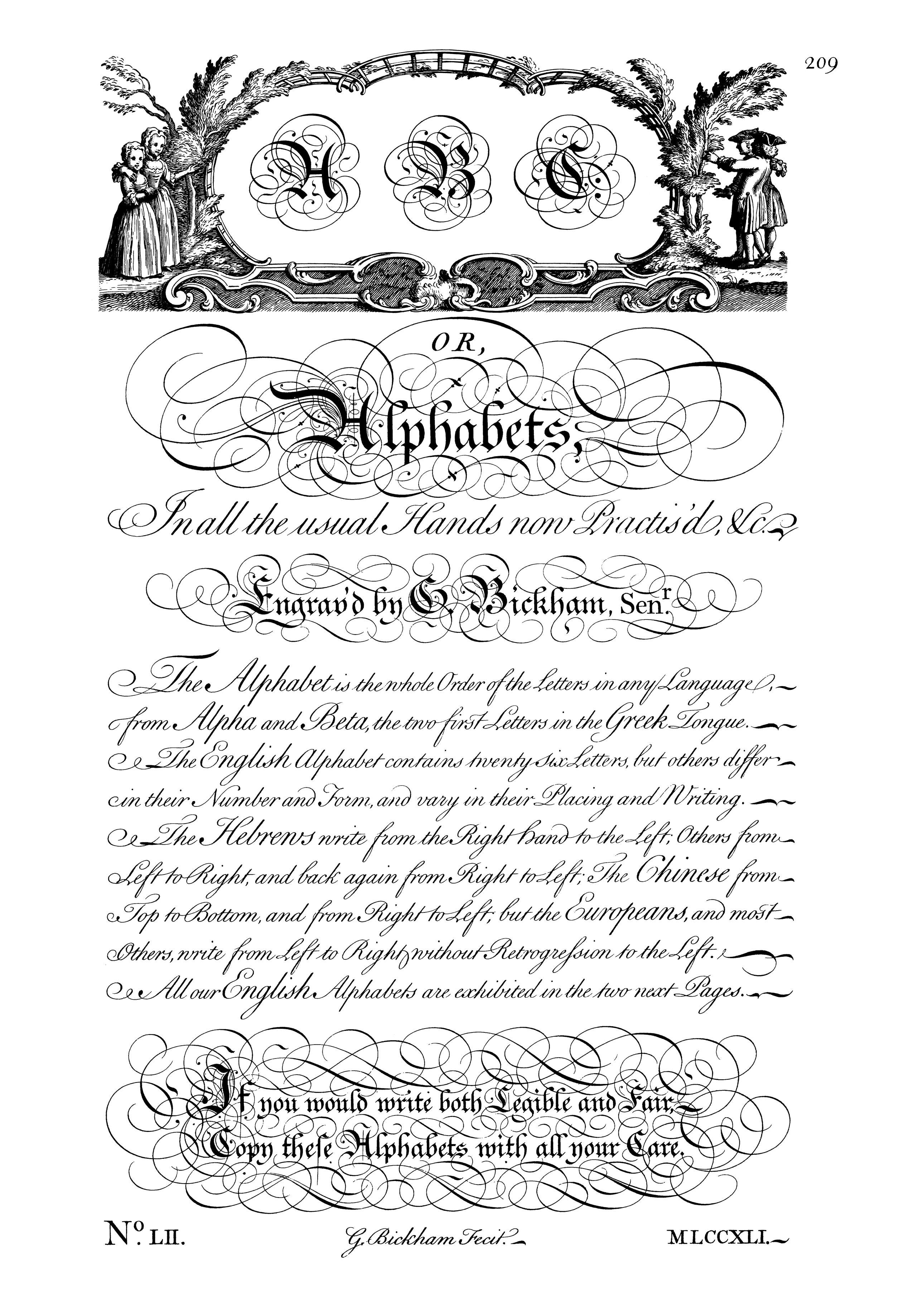 Page 209 of The Universal Penman, first published c. 1740–1741. An example of George Bickham's blackletter and English roundhand lettering, ornamental penmanship and engraving skills.